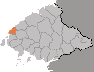 Map of Sinuiju, Pyongan-pukto, DPRK, 2006